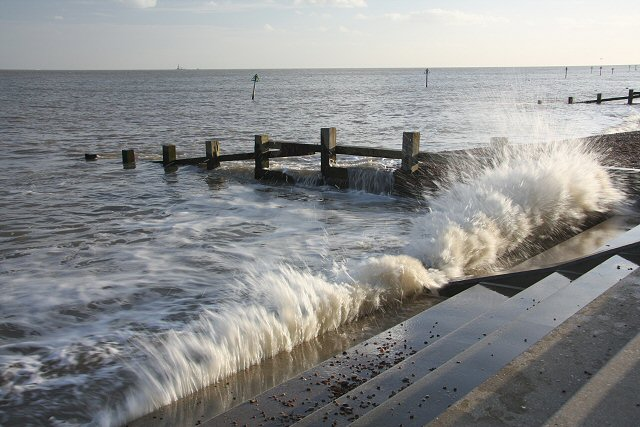 Wave power The sea defences at Brackenbury Dip are stepped; at high water the waves hit the concrete steps and are repelled.